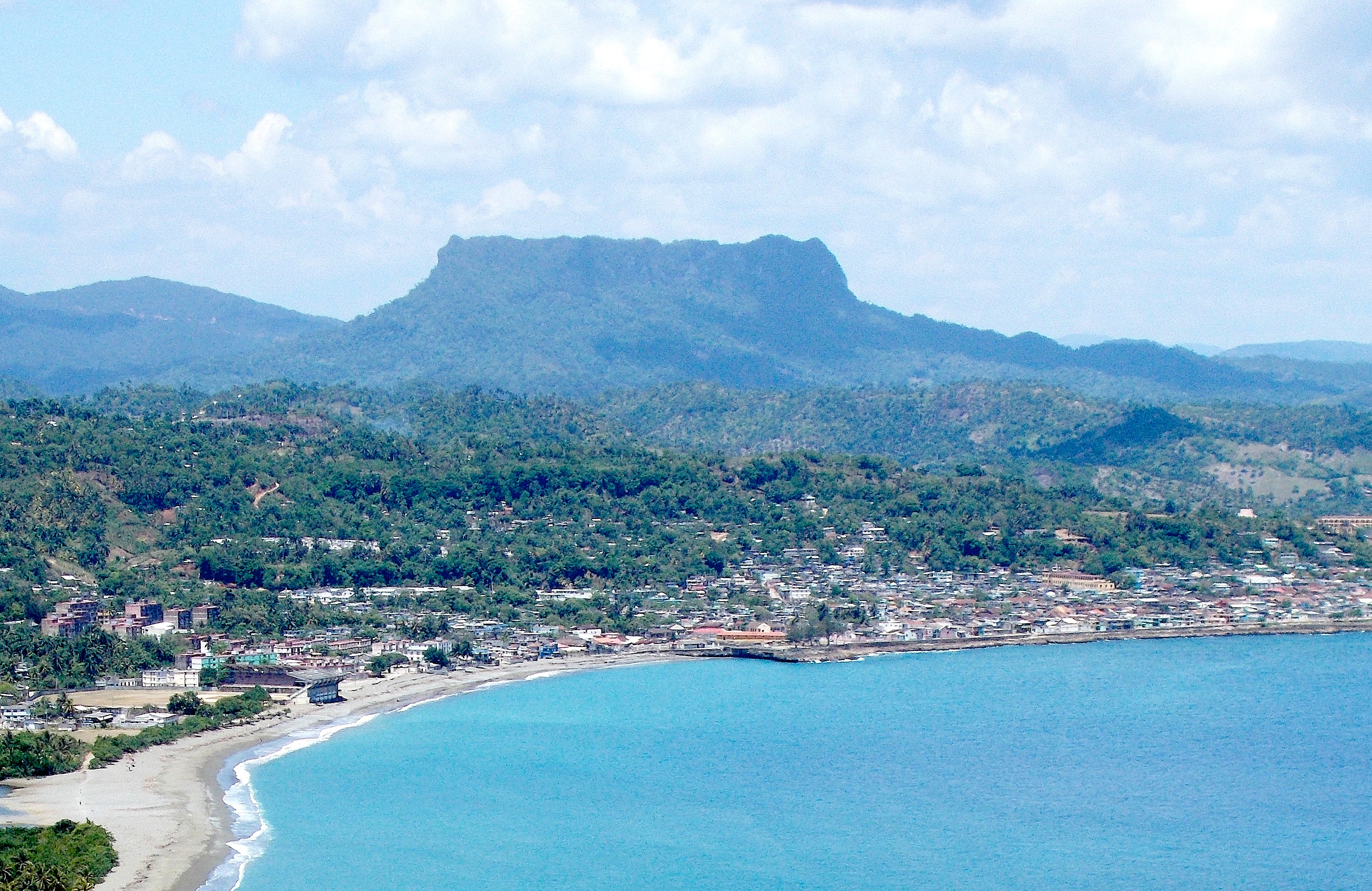 A picture of the town of Baracoa, Cuba, with the anvil-shaped mountain "El Yunque" in the background. The river in the foreground is the "Miel" (honey) river. The beach is named "Playa Boca del Miel"